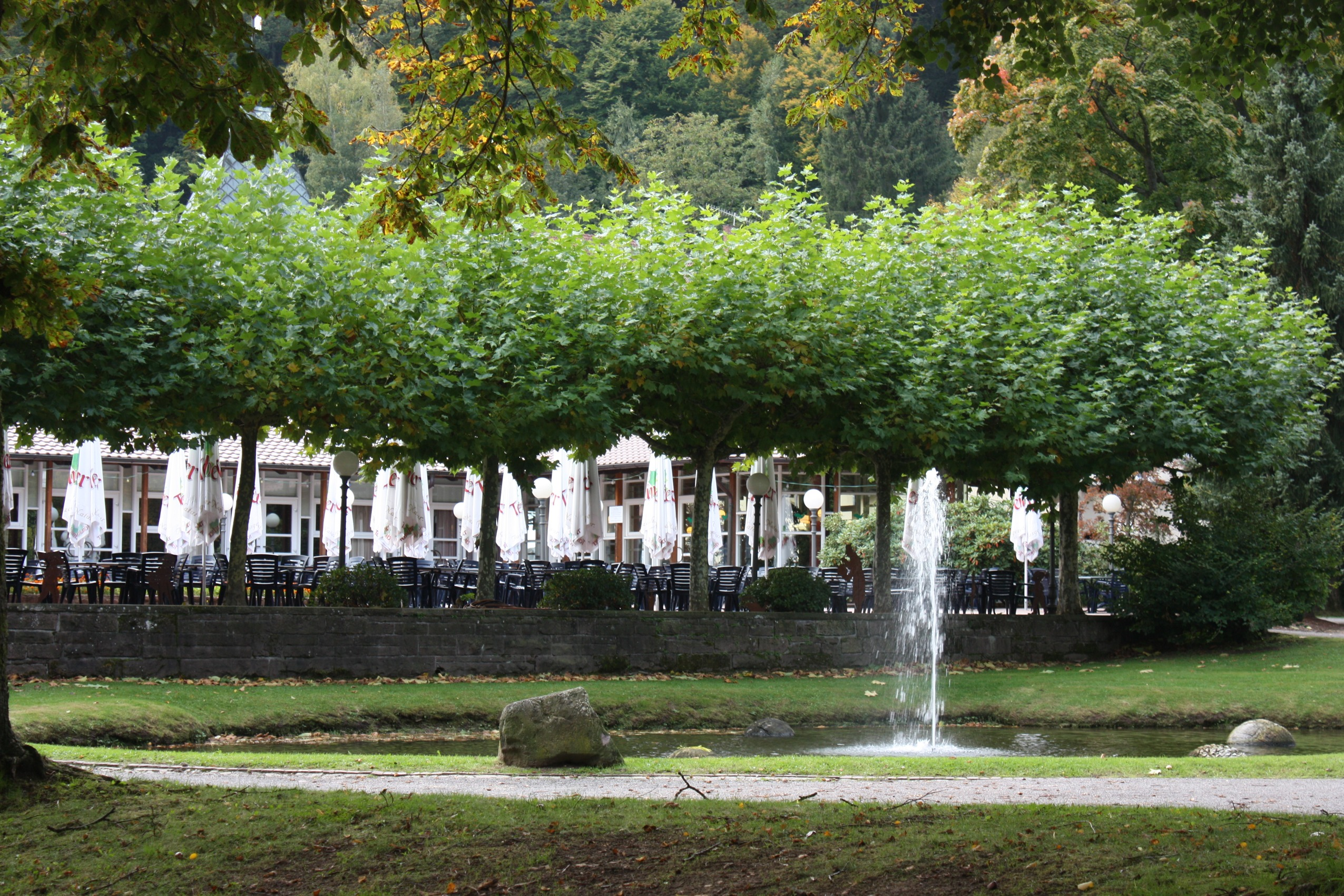 Bad Herrenalb, the Parkrestaurant